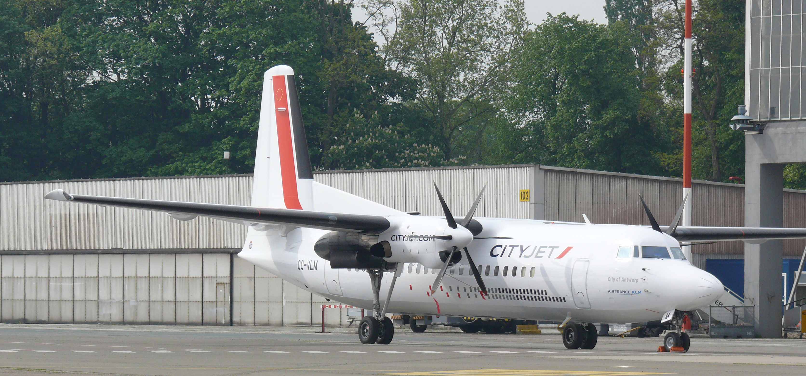 CityJet Fokker 50 OO-VLM at Antwerp International Airport. The Fokker F27 Mk. 50, known as the Fokker 50, is a turboprop-powered airliner, built by Fokker in the Netherlands.